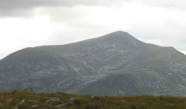 Stob Coir' an Albannaich Granite slabs in a south facing corrie on Stob Coir' an Albannaich (1044m).